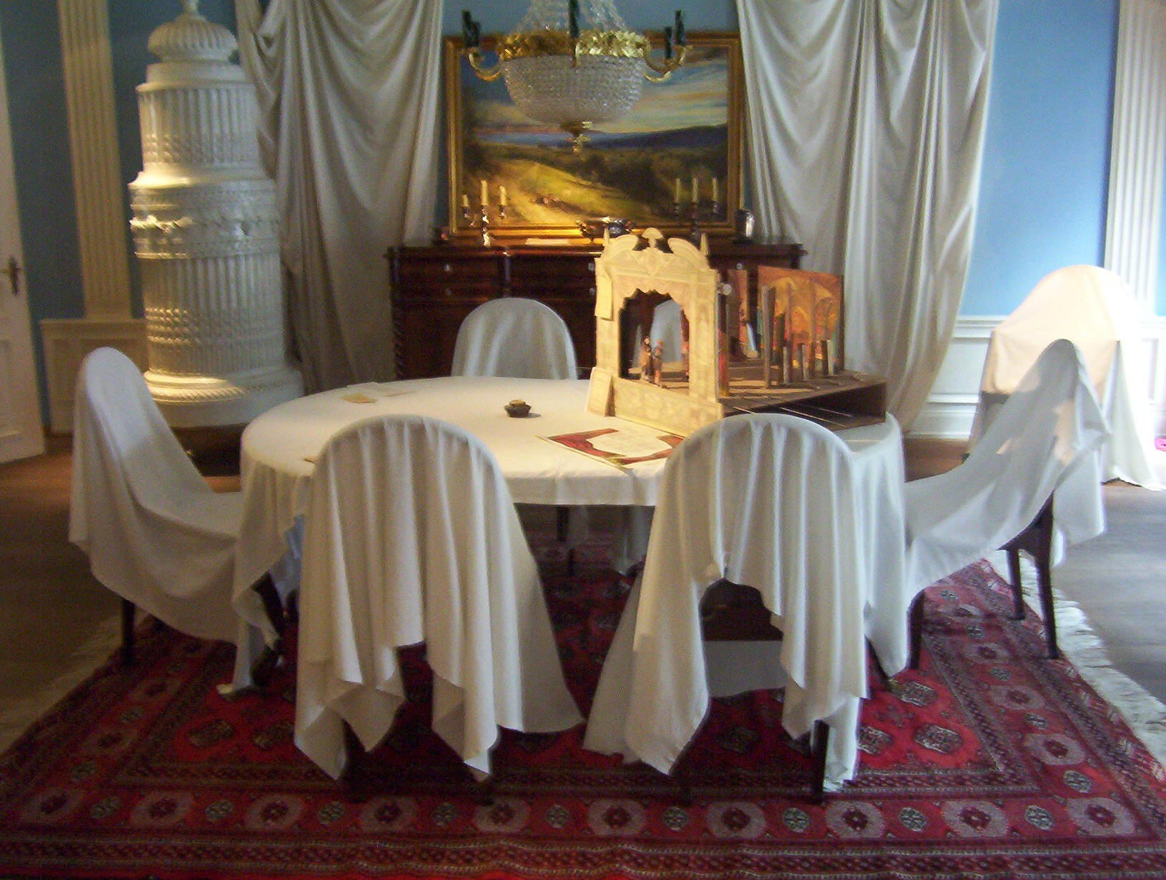 the dining room in the Buddenbrook house in Lübeck, Germany